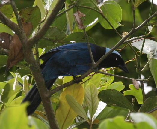 Azure-hooded Jay (Cyanolyca cucullata) in a tree. Taken on 19 Mar 2008, San Gerardo, Alajuela, Costa Rica.